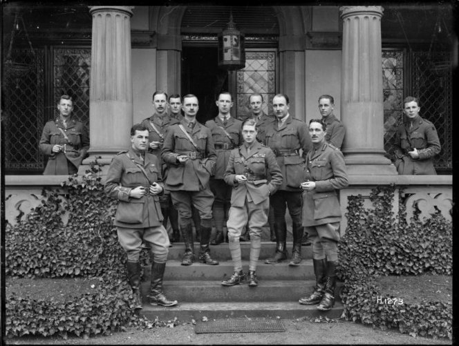 Group portrait of Edward, Prince of Wales (centre front) standing with Brigadier General Herbert Hart and staff of the New Zealand Rifle Brigade during the occupation of Germany after World War I. Lieutenant Colonel Henry Maitland (Jumbo) Wilson is in the centre behind them. The group is bare-headed. James Lyon stands behind the Prince, at the back. Photograph taken Bruck January 1919 by Henry Armytage Sanders. Sanders was an official photographer of the NZ Military Forces during WWI and thus copyright in this work rests or rested with the Crown. The Crown has released this work under the CC-BY 3.0 unported license. Refer to source website for details: This work's copyright expired 50 years after creation in New Zealand and probably also in countries following the rule of the shorter term.